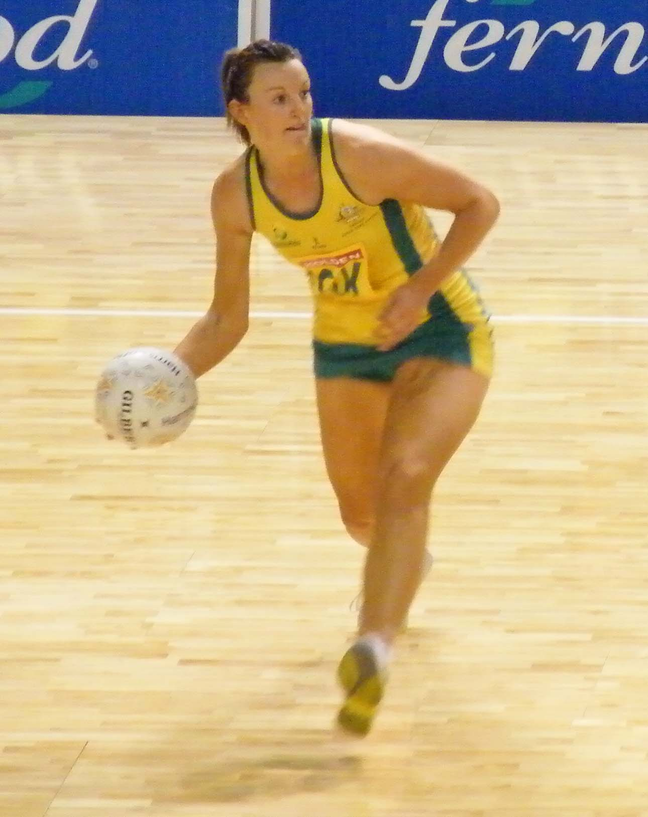 Australia v England - Netball Test - Adelaide, October 2008.